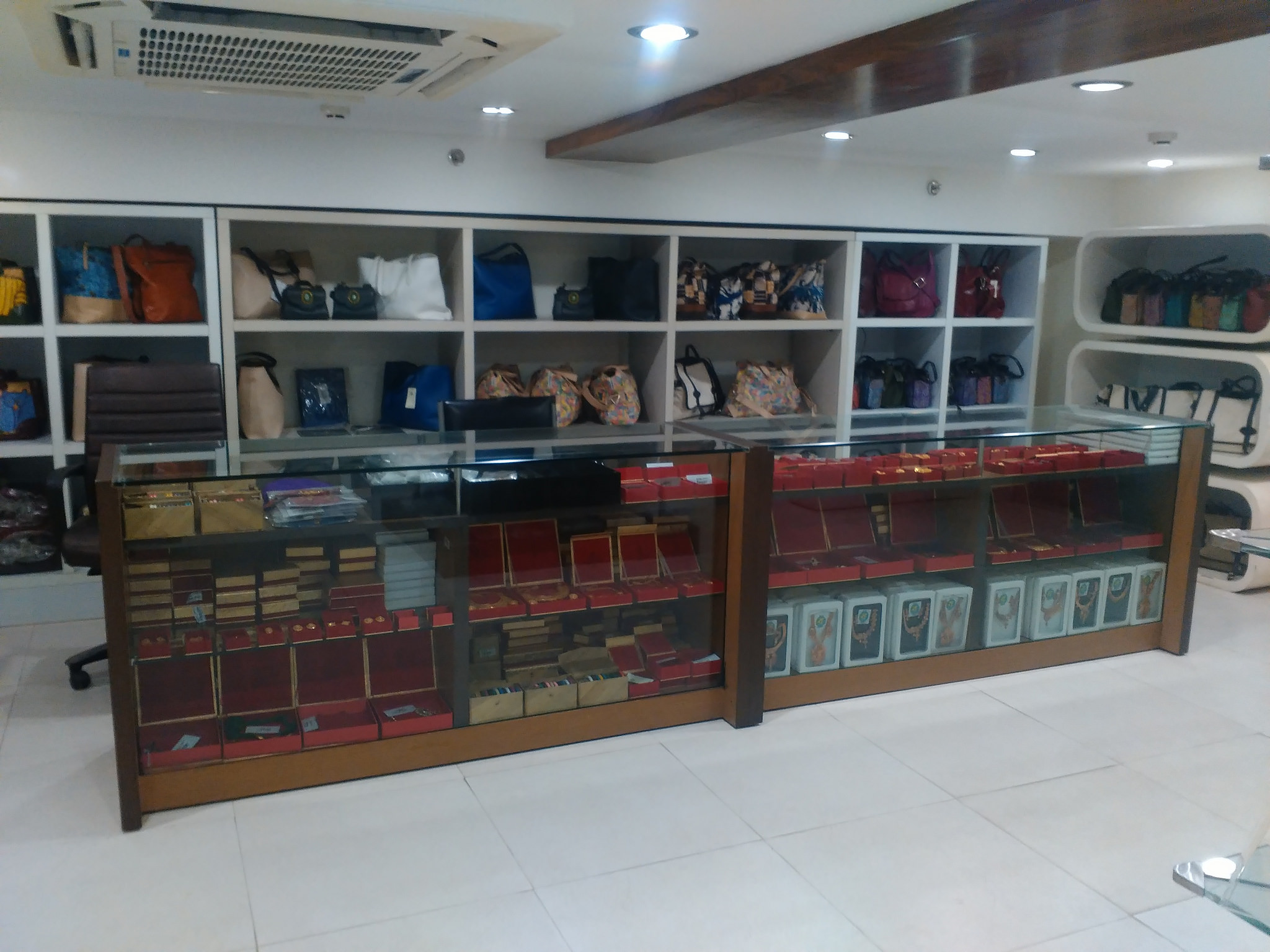 produts